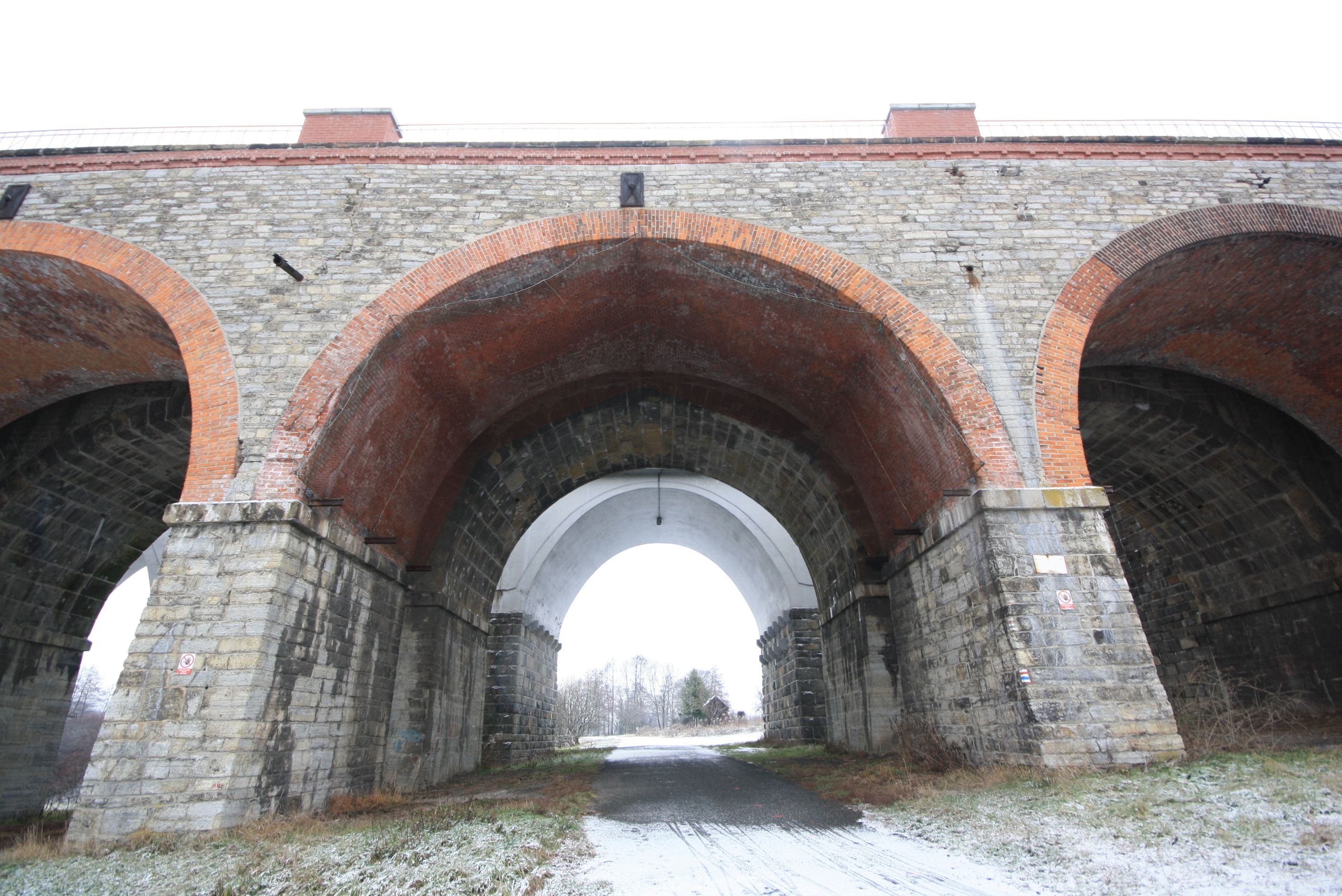 Hranice (Czech Republic), railway viaduct (technical monument), snow-covered